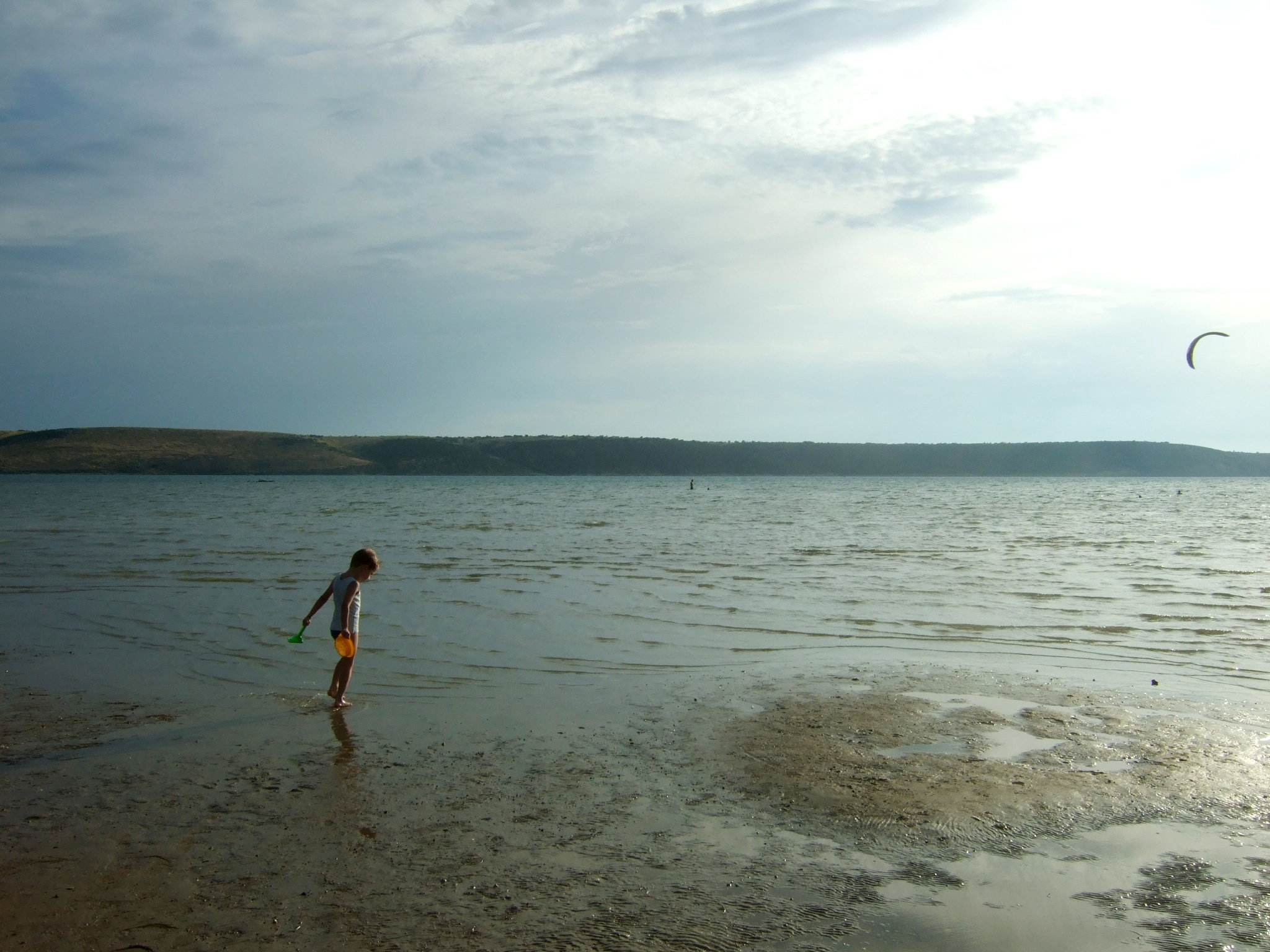 The sea nearby Ljubač (Ražanac) - Zadarska županija, Croatia